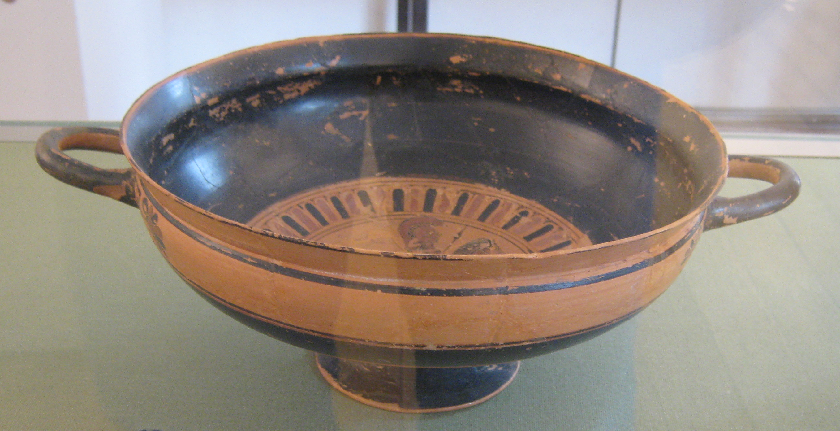 Attic corinthianizing black-figure Kylix depicting a Warrior on a Horse in the Tondo; about 580/560 BC; Ancient Collection Museum of the University of Leipzig, Inv.-Nr. T 314.